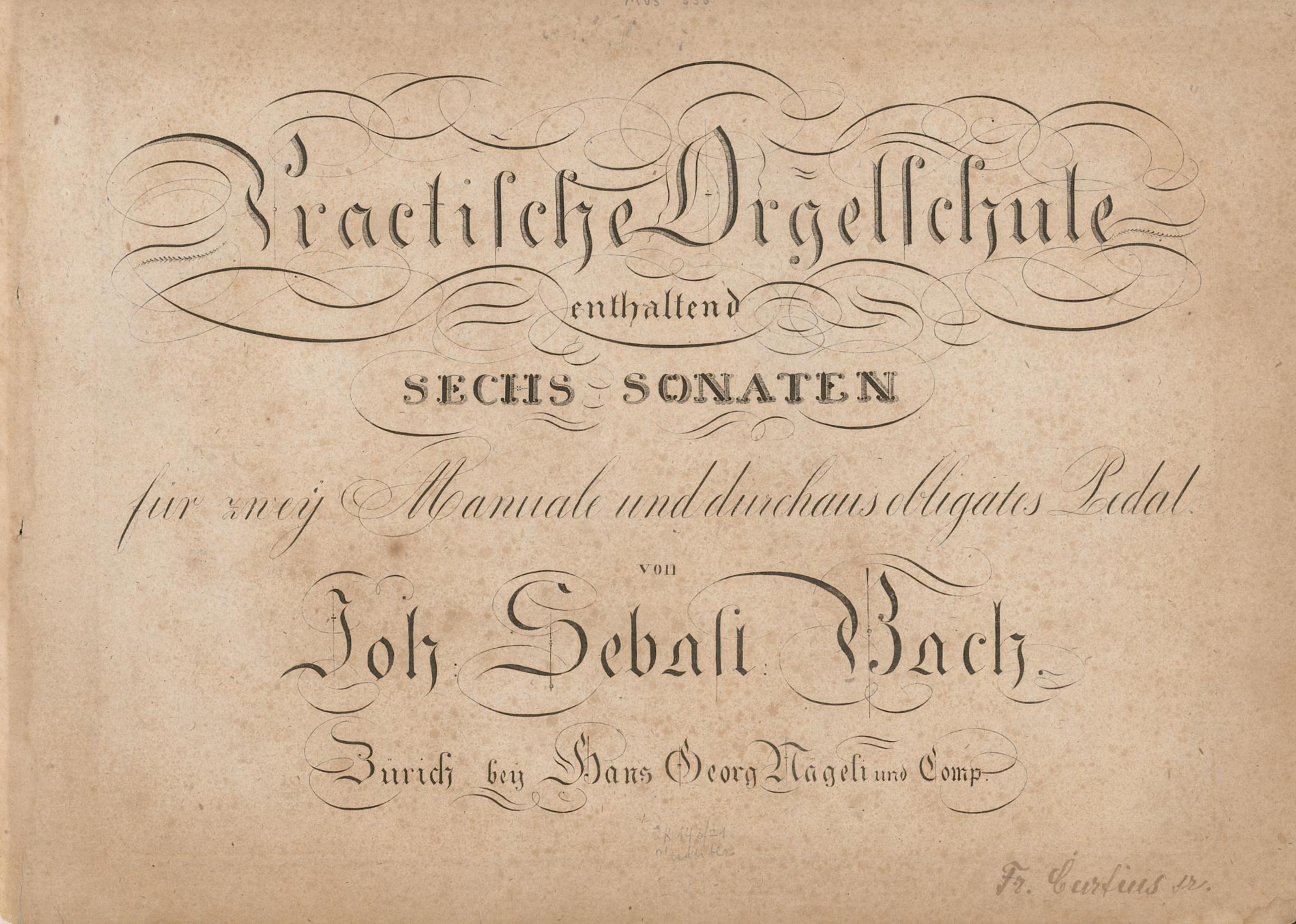 Title page of the printed edition published by Hans Georg Nägeli of J.S. Bach's six organ sonatas, BWV 525−530